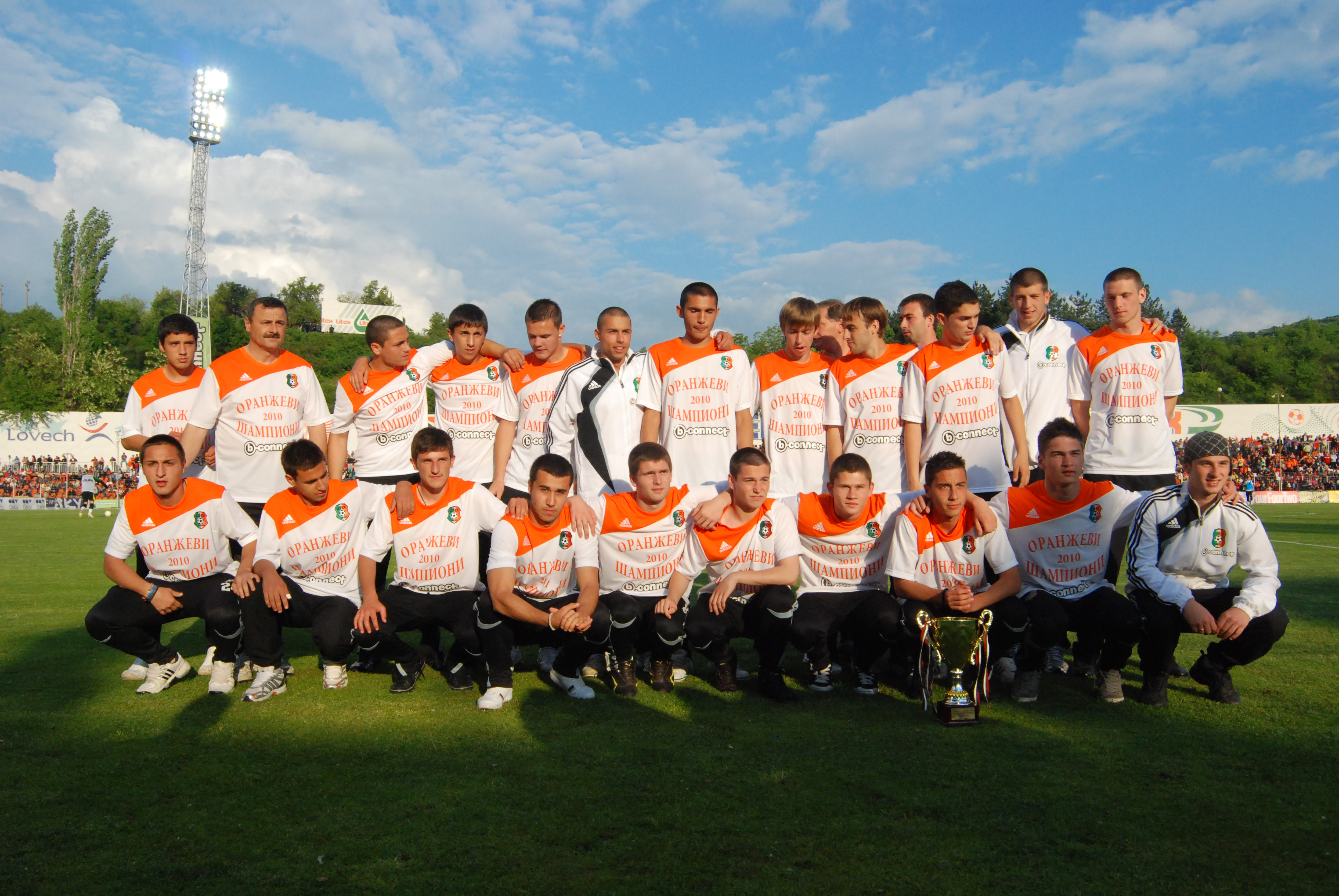 Litex Lovech - Double 'B' league Champions 2010